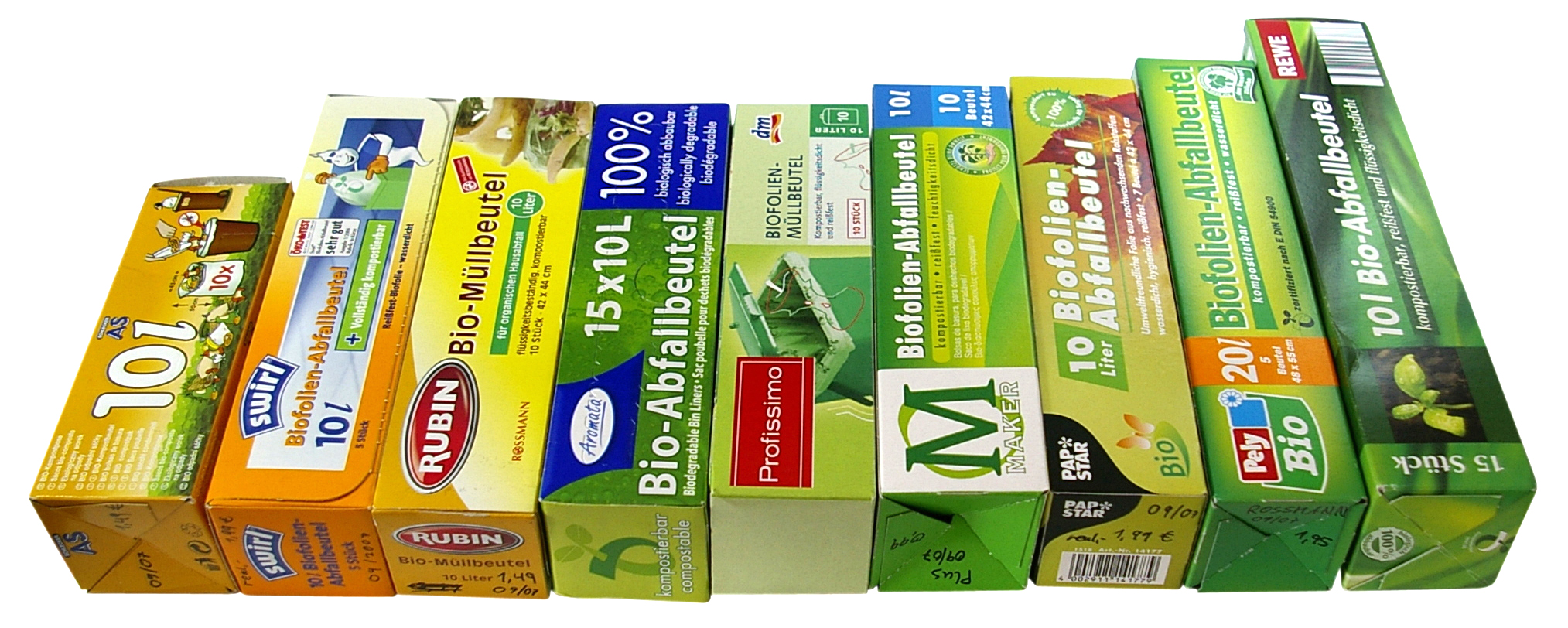 Waste bags made by bioplastics and other biodegrable Plastics